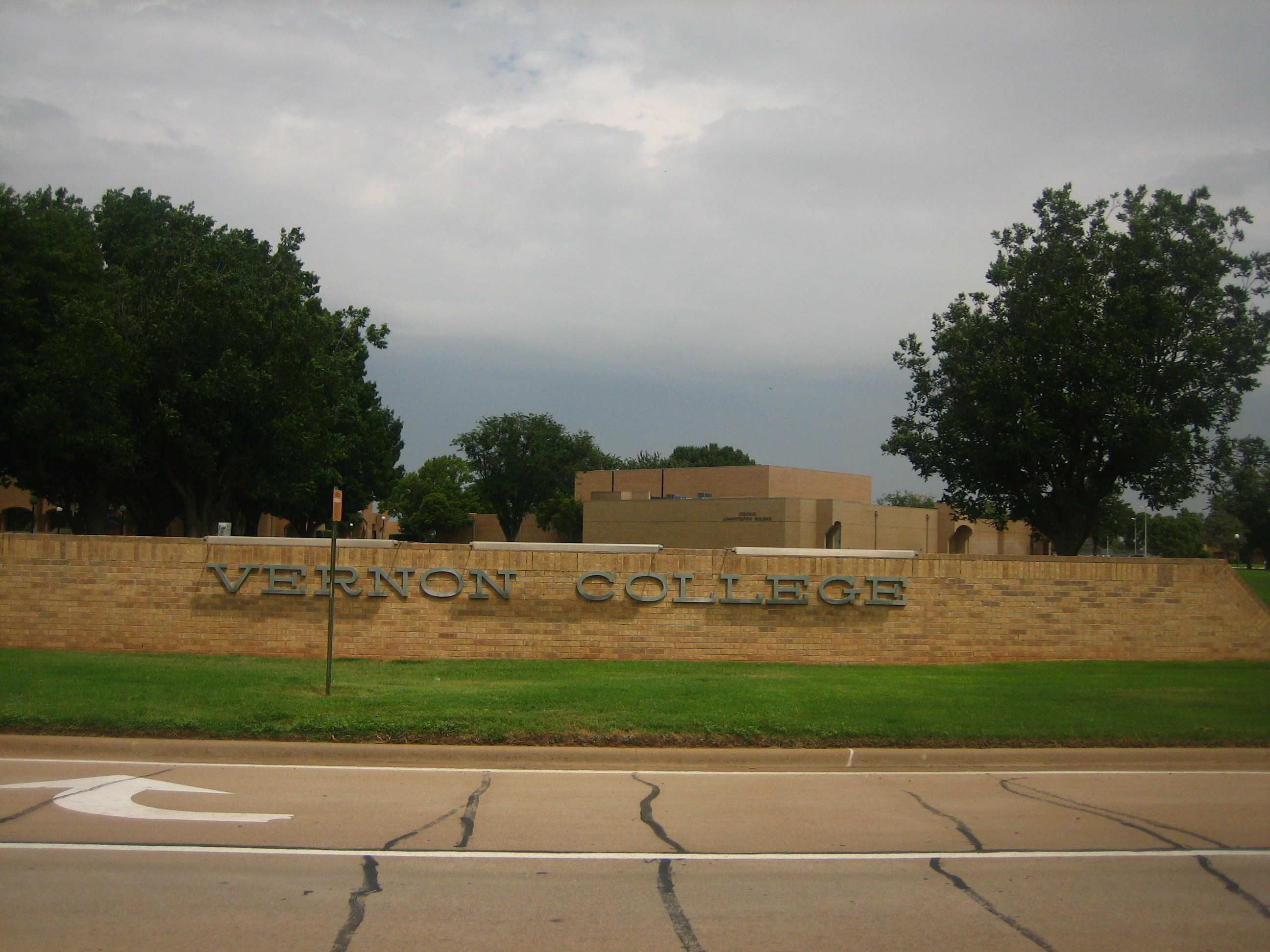 I took photo on July 16, 2008.Billy Hathorn (talk) 02:48, 24 July 2008 (UTC)